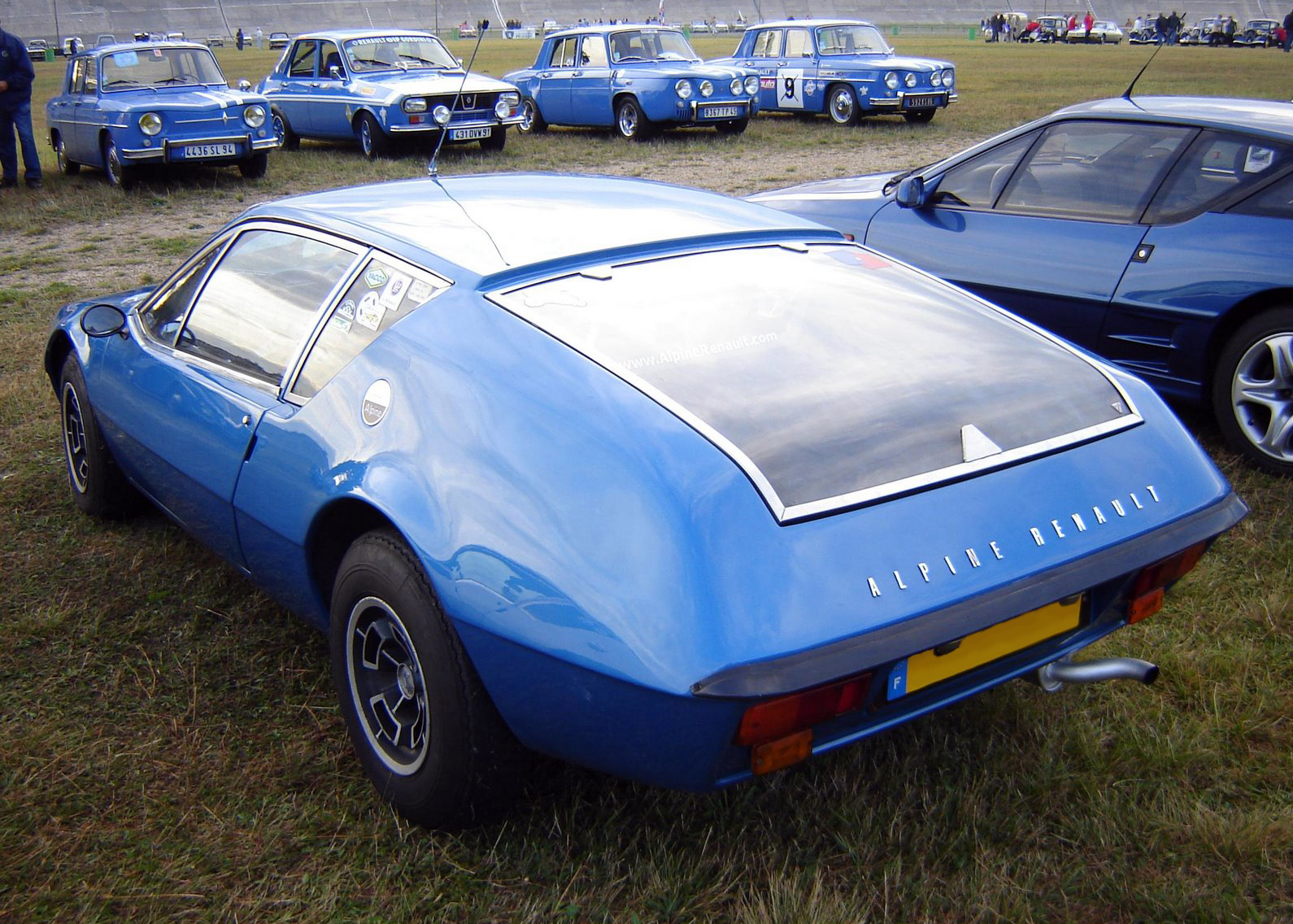 Early (four-cylinder) Renault Alpine A310 in front of a gaggle of Gordinis at the Autodrome de Linas-Montlhéry, 2009